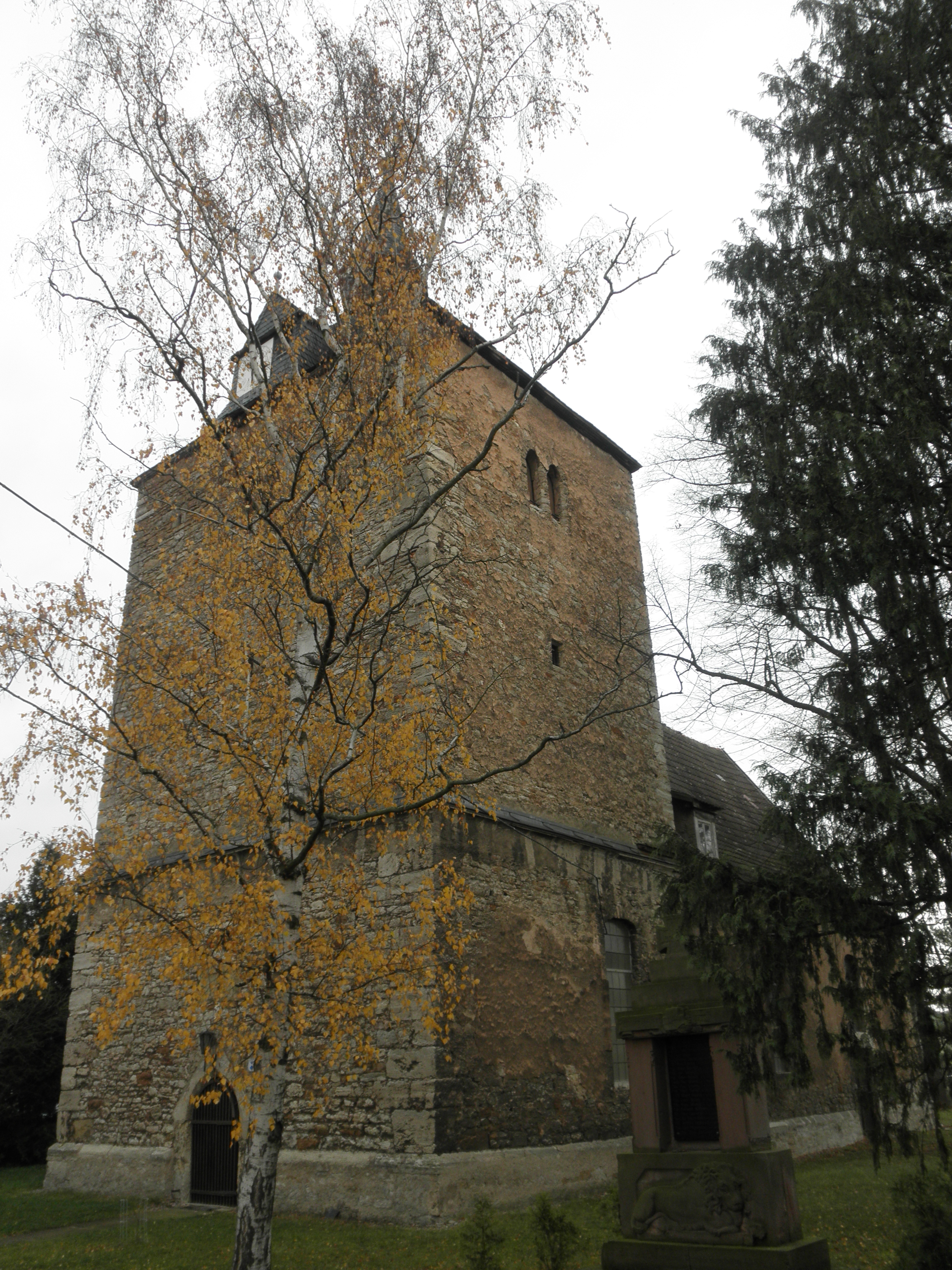 Church in Wasserthaleben in Thuringia